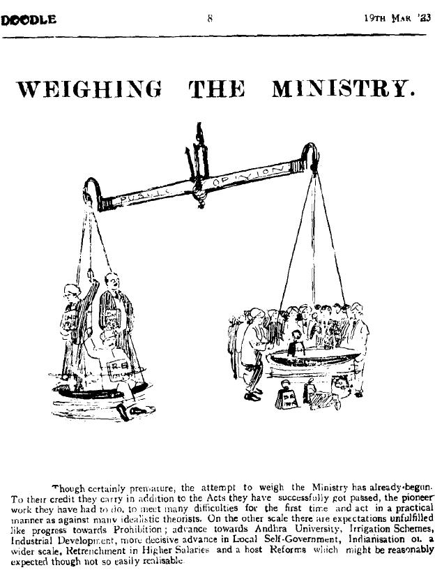 This is a cartoon dated 19 March 1923. It depicts an evaluation of the first Justice party ministry under the Raja of Panagal, which ruled the Madras Presidency of the British Raj from 1920 to 1923. The source of the cartoon (Rajaraman 1983) hasn't made it clear in which magazine it was published. It could be from the 1925 book, Diary of Mr. Doodle, published by Horsfall and Co at Madras